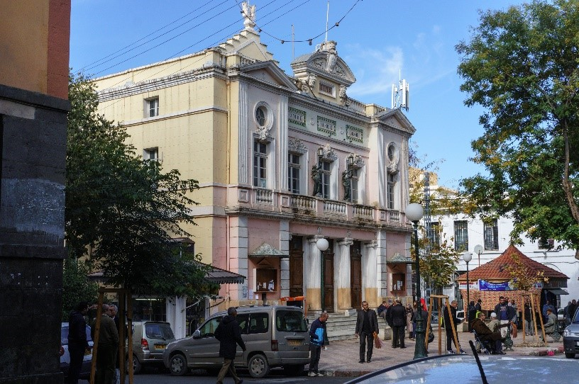 Sétif now a days